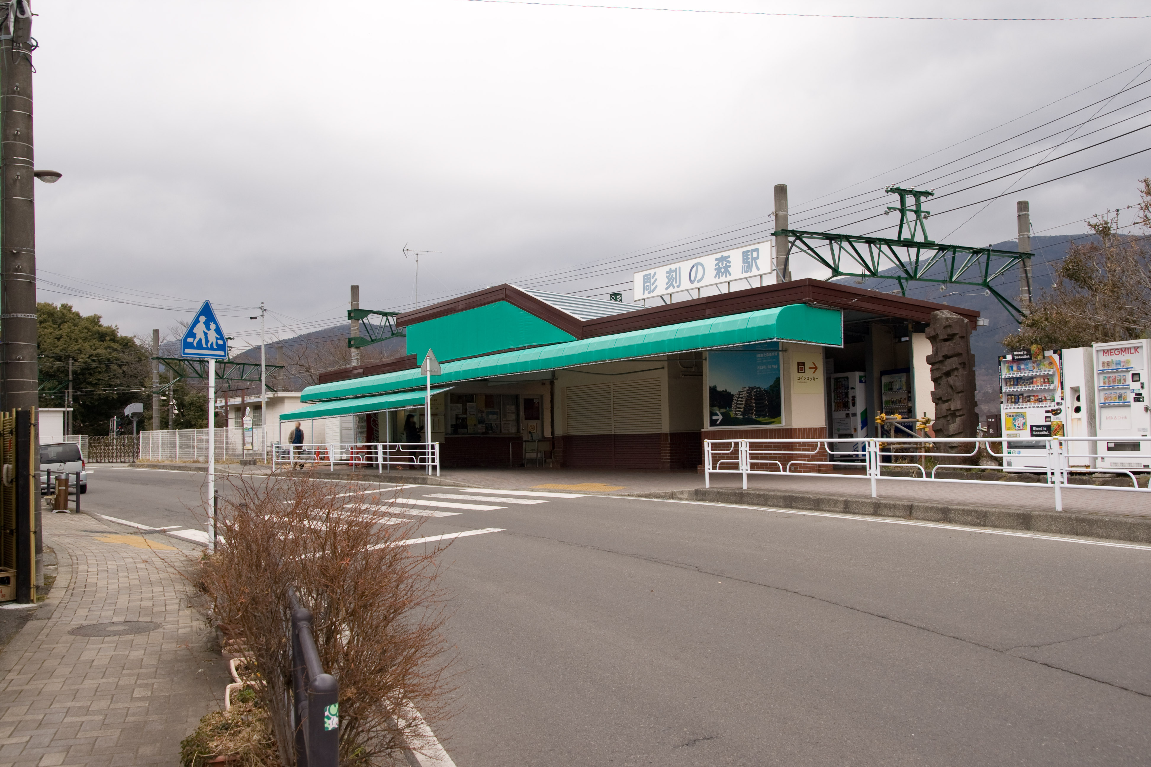 Chōkoku-no-Mori Station on the Hakone Tozan Railway Line in Hakone Town, Kanagawa Prefecture, Japan